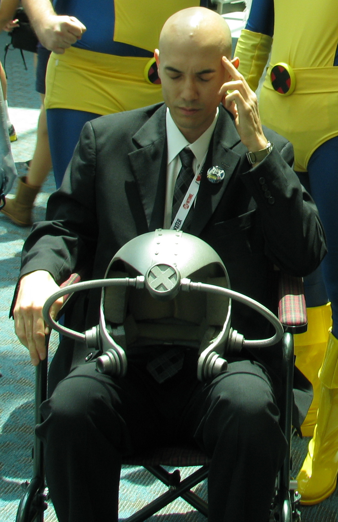 A group cosplay of the original X-Men. From the top row and left to right is Iceman, Beast, Angel, Cyclops, and Jean Grey [Marvel Girl]. In the front row is Prof. Xavier.